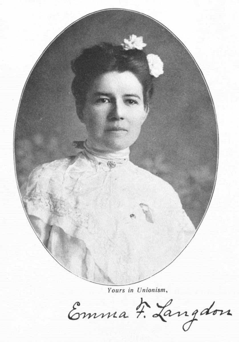 Depicted person: Emma F. Langdon – American labor leader